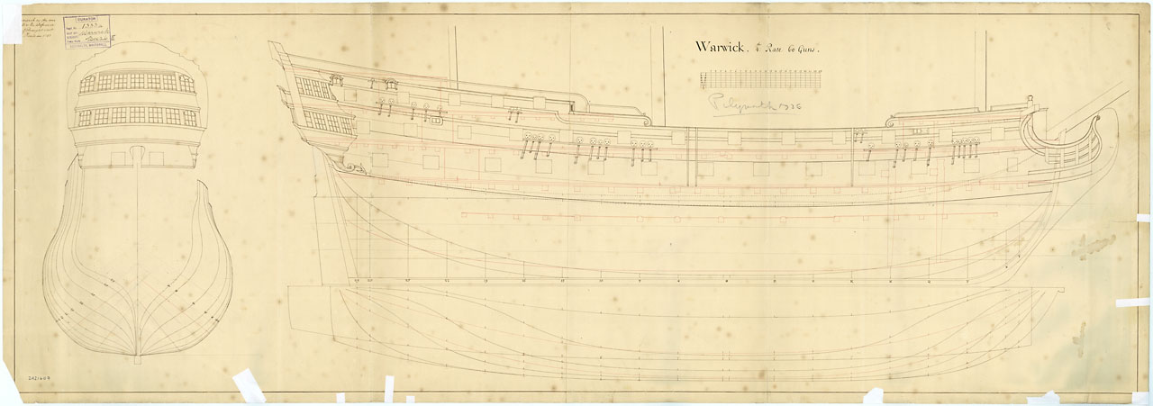 Warwick (1733) Scale 1:48. Plan showing the body plan, stern board outline, sheer lines with inboard detail, and longitudinal half-breadth for Warwick (1733), a 1719 Establishment 60-gun Fourth Rate, two-decker as built at Plymouth Dockyard. WARWICK 1733